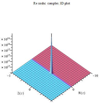 Coshc Re complex 3D plot